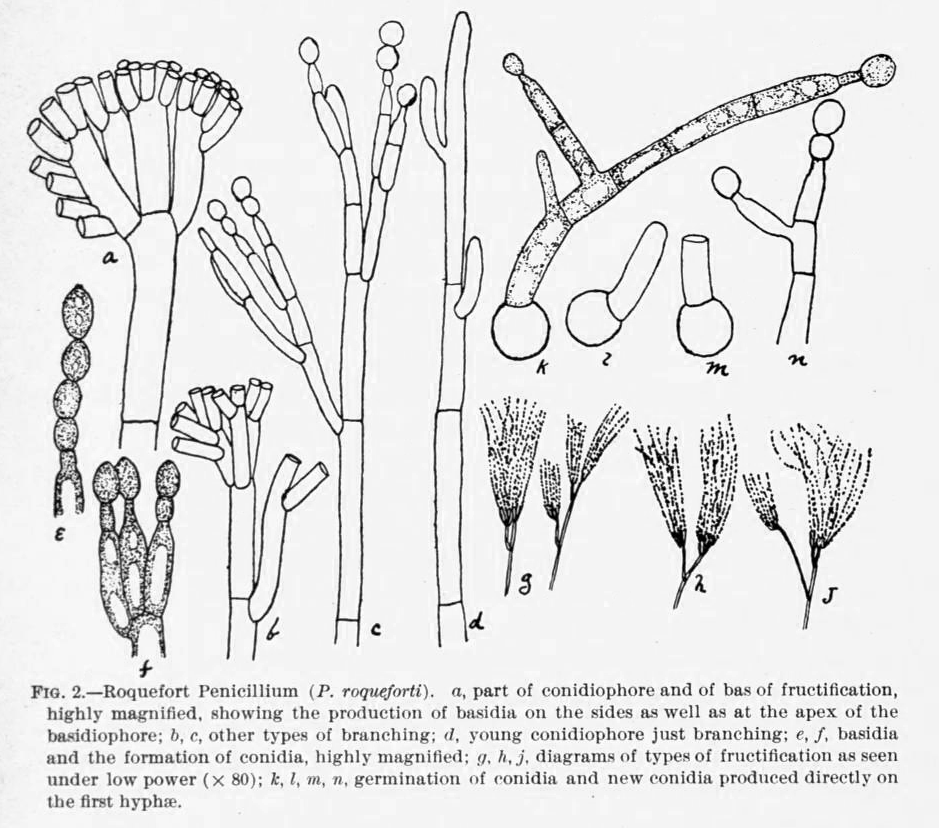 Illustration of the microscopical structures of Penicillium roqueforti Thom